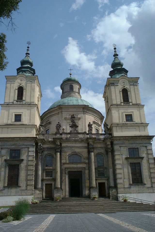 Poland, Klimontow. St. Joseph's Church.